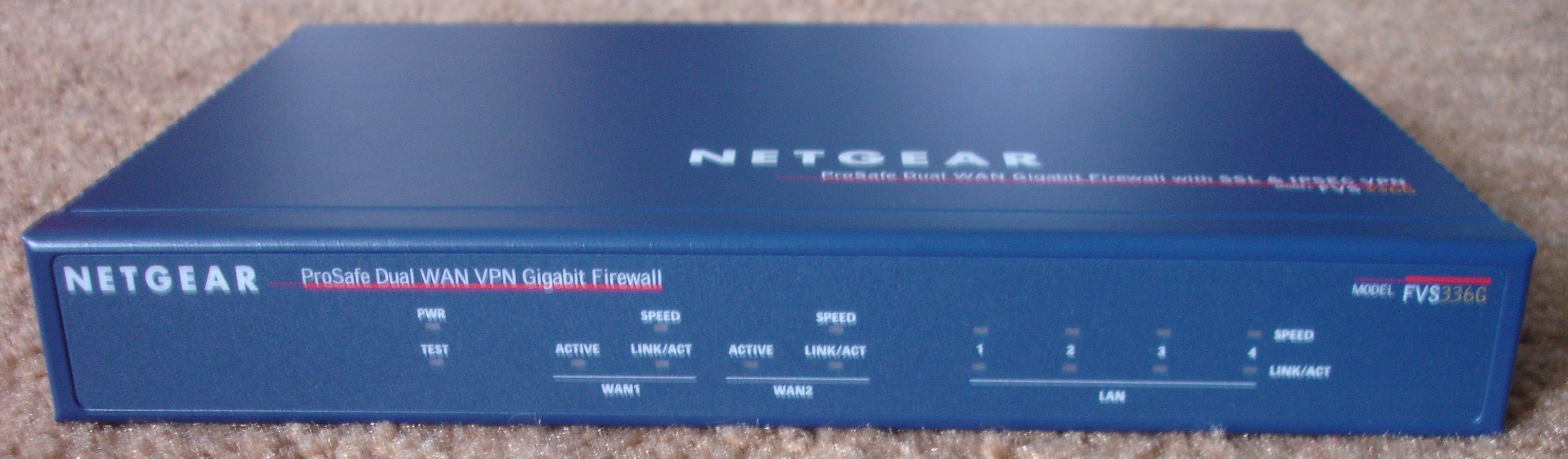 Netgear FVS336G network appliance, front view.